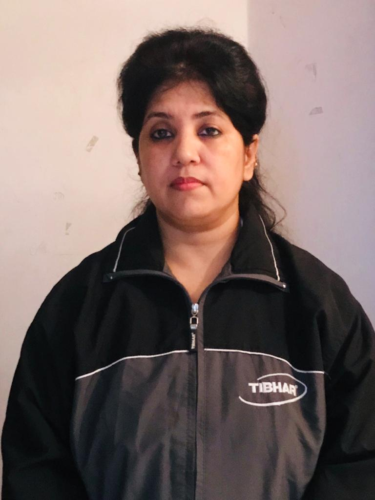 Mantu Ghosh is a former table tennis player and now a coach and sports administrator. This image was taken at YMA Club in Siliguri, West Bengal.